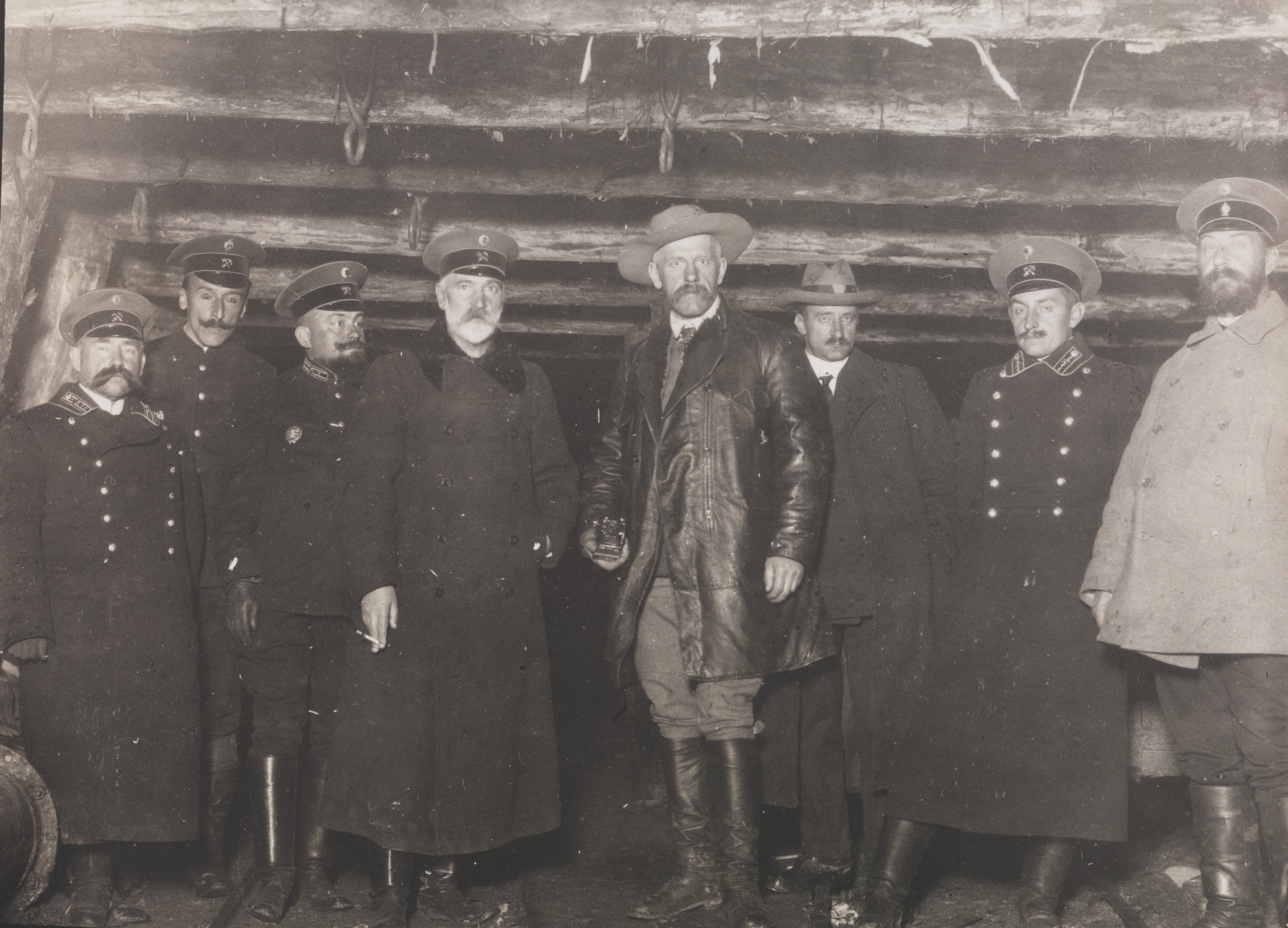 Fridtjof Nansen inside the tunnel hall of the last tunnel that was under construction. From the left engineer Liverovskij, the chief of the Amur-railroad, engineer Speranskij, the site engineer of the 1,300 meter long tunnel («Bauleiter des Tunnels der 123 Werst»), engineer Skongarevskij, the Amur railroad's manager, (Abteilungschef A. A. B.), engineer Wourtzel, the director of the imperial Russian railroad-construction, Fridtjof Nansen with a camera in his hand, engineer Ratjen, engineer Rosenberg, chief surveyor of the Amur-railroad (Distanzchef A. A. B.), and Dr. Fedorov, the Amur-railroad's medical physician. (Sanitätsartrt A. Am. B.). One of the pictures from the journey to Siberia between Aug. 2 and Oct. 26, 1913. Fridtjof Nansen continued his trans-Siberian journey by railroad, some of it recently finished, from Krasnoyarsk all the way to Vladivostok.